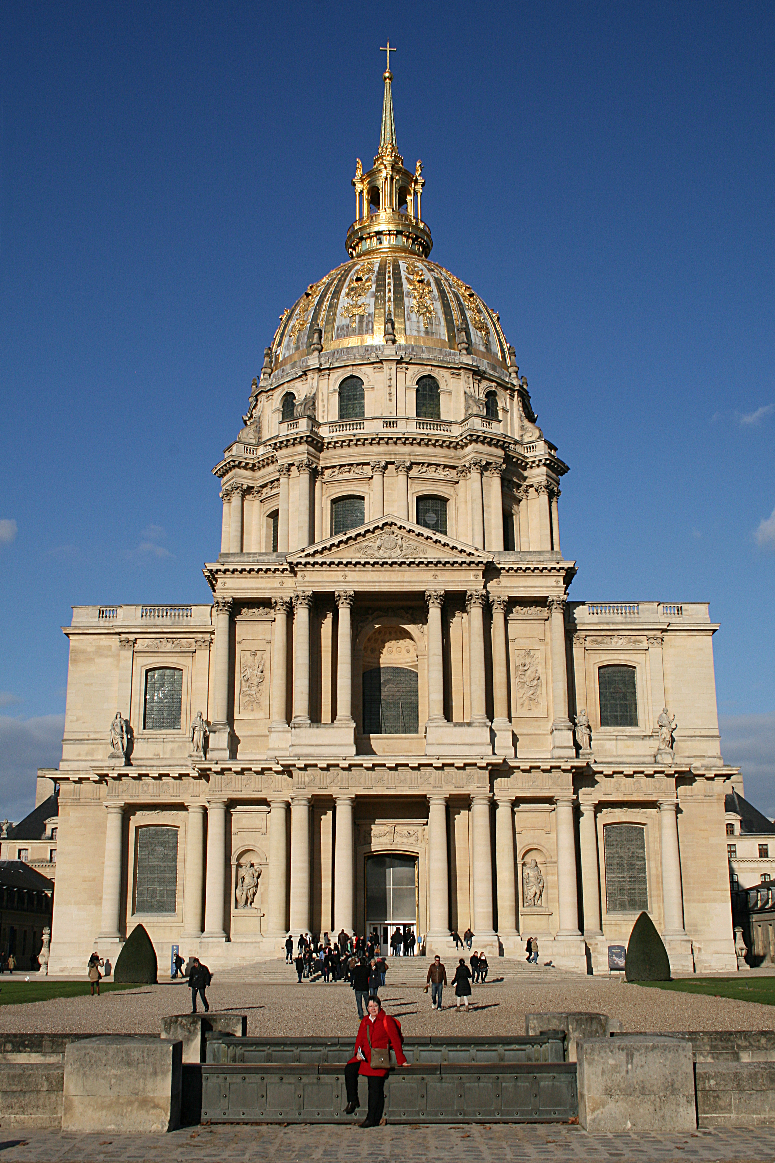 Saint-Louis-des-Invalides Cathedral (height 107 m), built between 1681 and 1708 according to the general plan in the shape of a Latin cross by Jules Hardouin-Mansart on the plain of Grenelle in Paris.